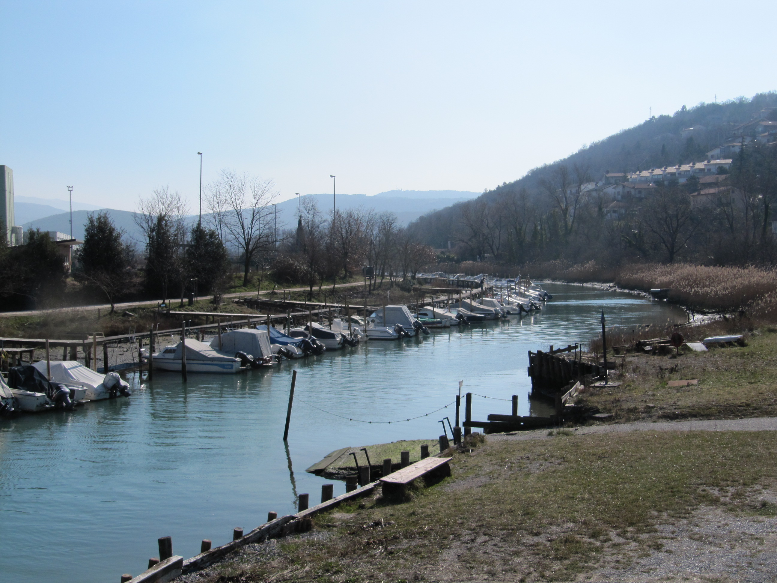 Osp river (Slovenia/Italia)